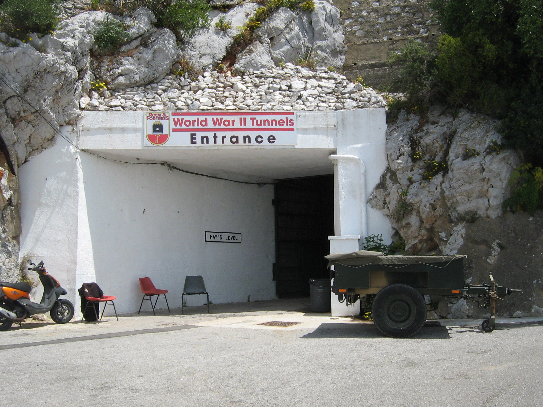 Entrance to WWII tunnels